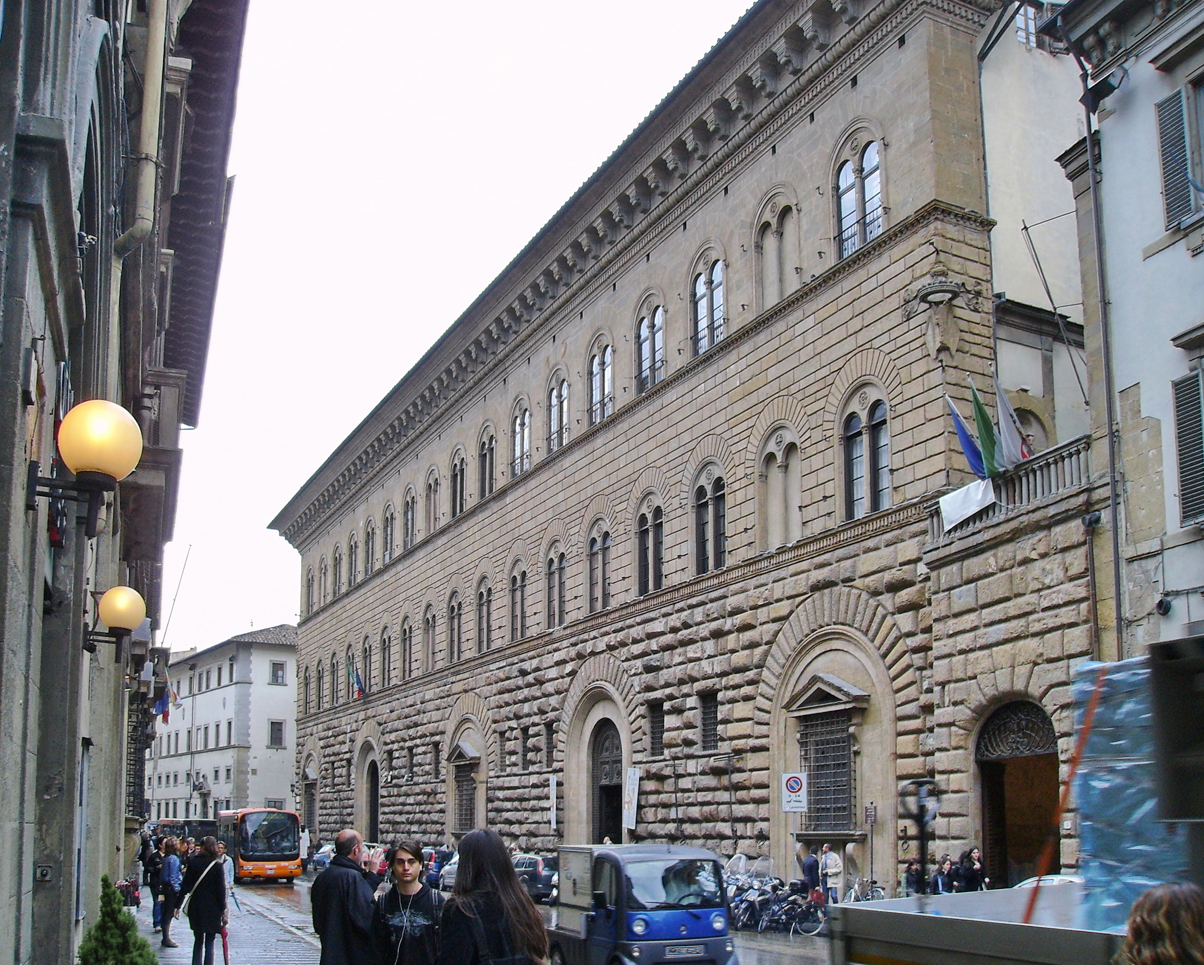 Palazzo Medici Riccardi (Florence) - Facade.